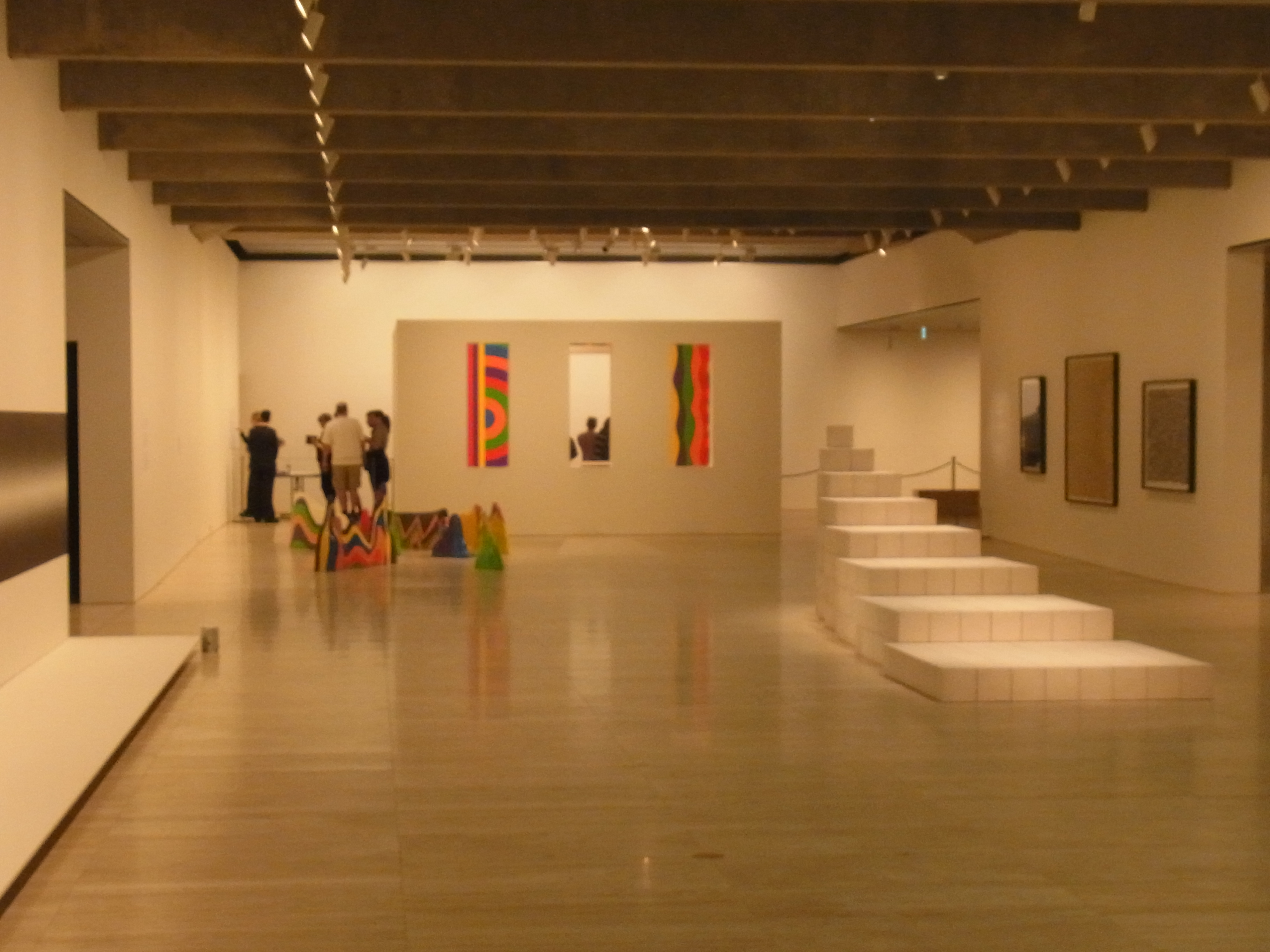 AGNSW Sydney Kaldor Family contemporary art gallery opened 2011